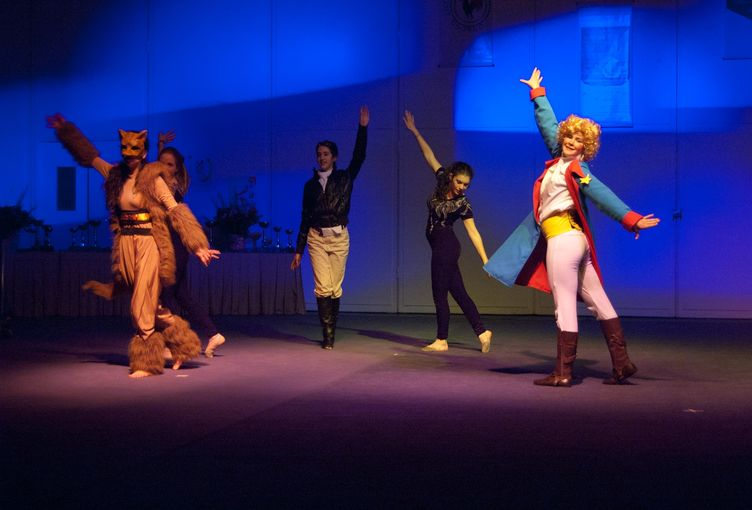 spectacle des élèves à l'occasion de l'ouverture des jeux interalliances 2011